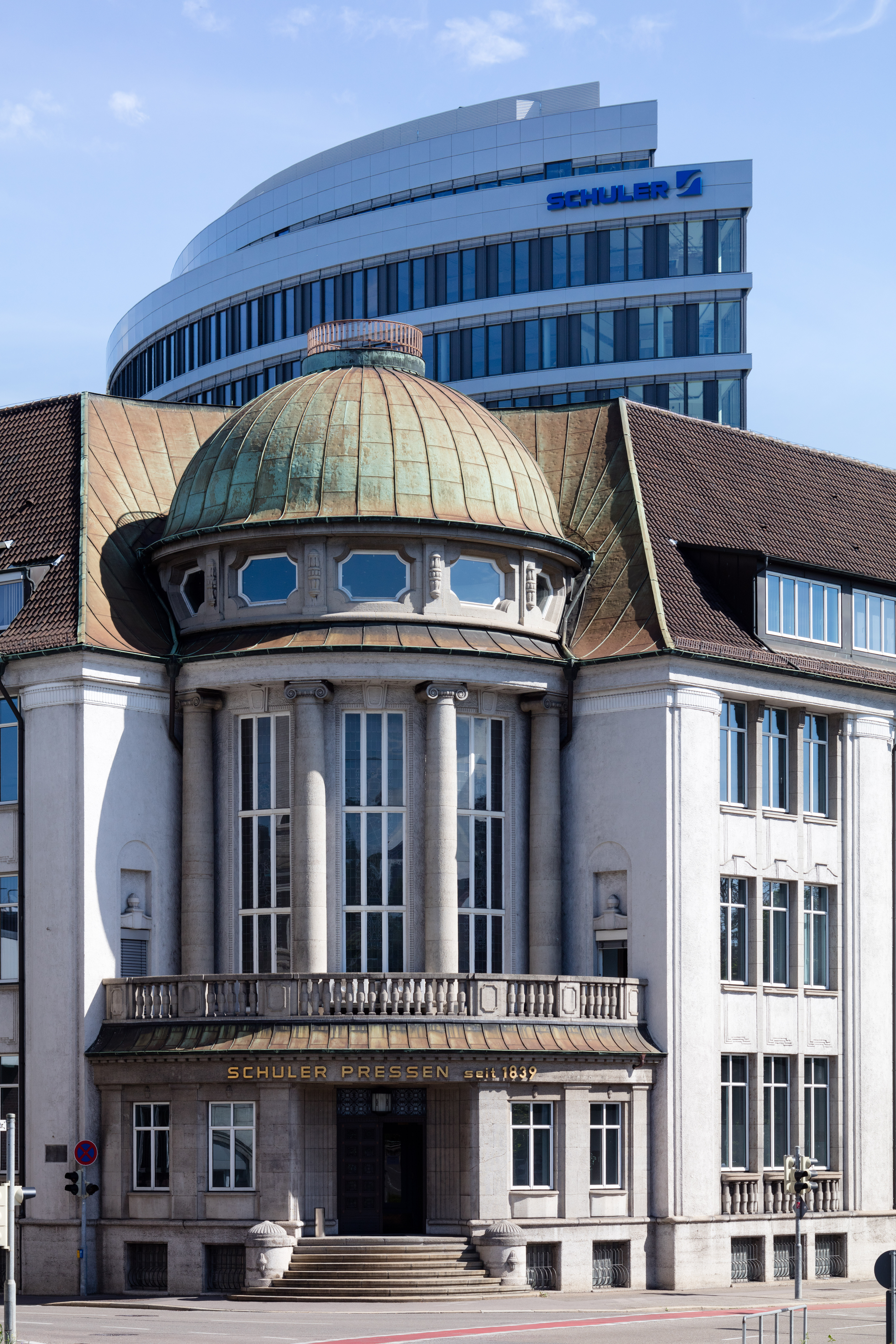 Schuler Innovation Tower am Hauptsitz in Göppingen